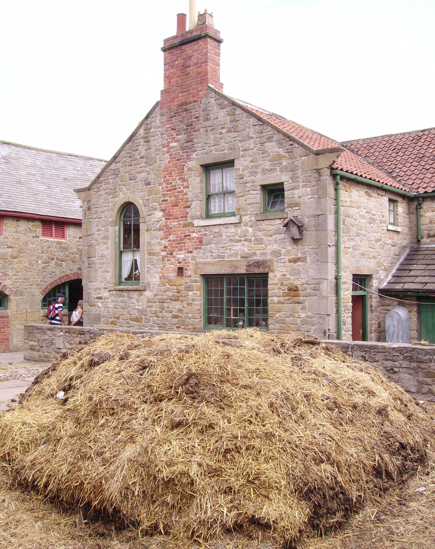 Beamish Museum, County Durham, England. This is a manure pile in one of the courtyards in the complex of buildings in Home Farm - behind it is the west side (rear) of the row of buildings that front onto the road that runs N-S through the farm.